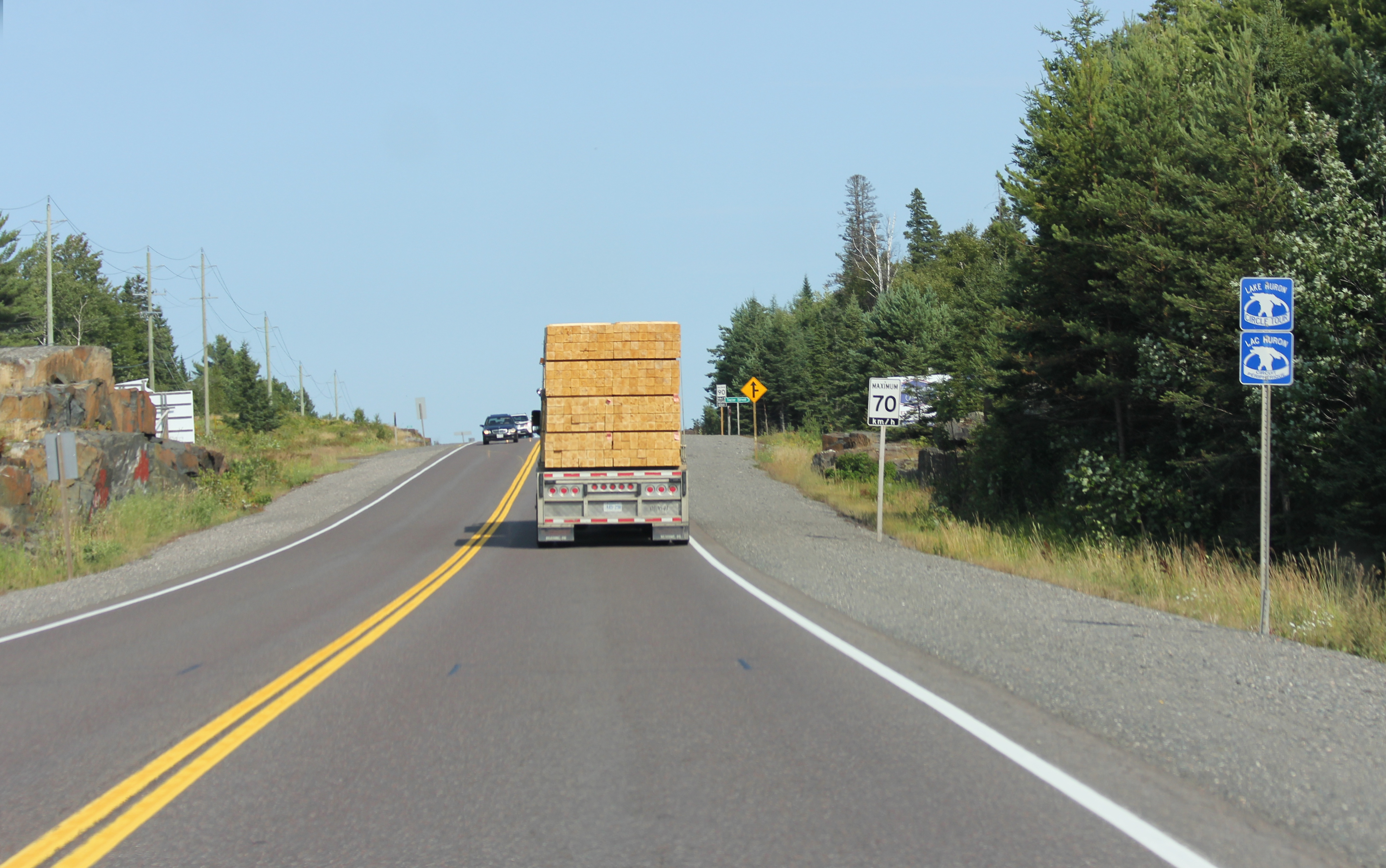 The Lake Huron Circle Tour on the Trans-Canada Highway 17 east of Bruce Mines, Ontario.